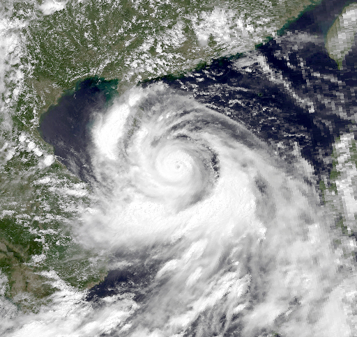 Typhoon Dot on June 9, 1989 with winds of 115 mph and pressure of 960 mbar.